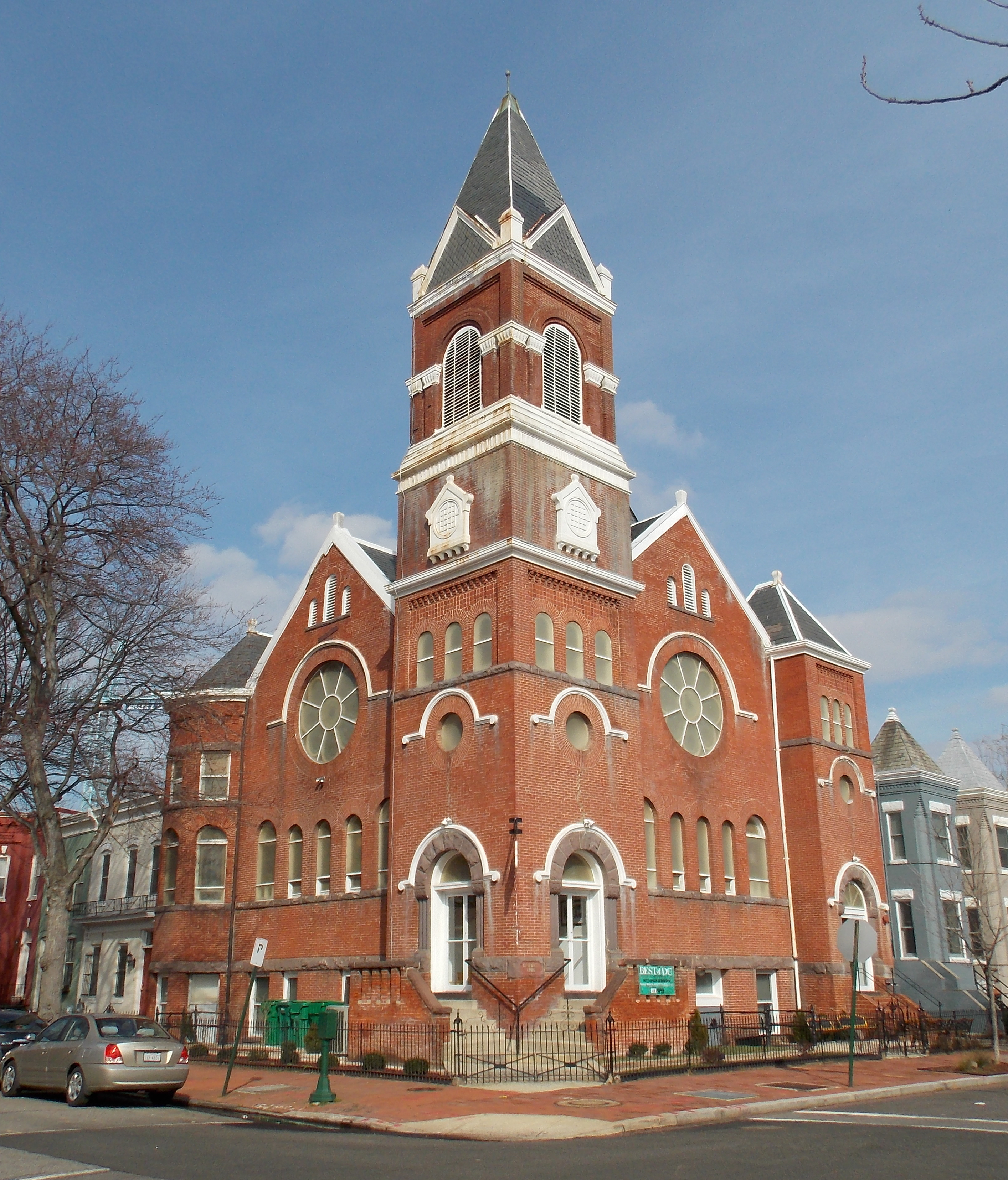 Cropped version of File:World Mission Society Church of God DC 01.JPG